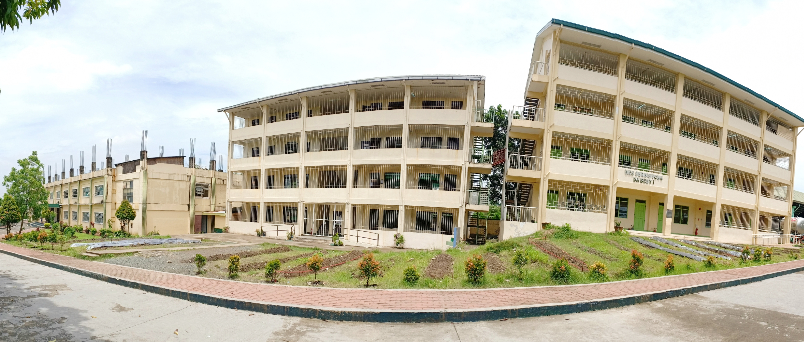 Panoramic view of Bignay National High School, 2018